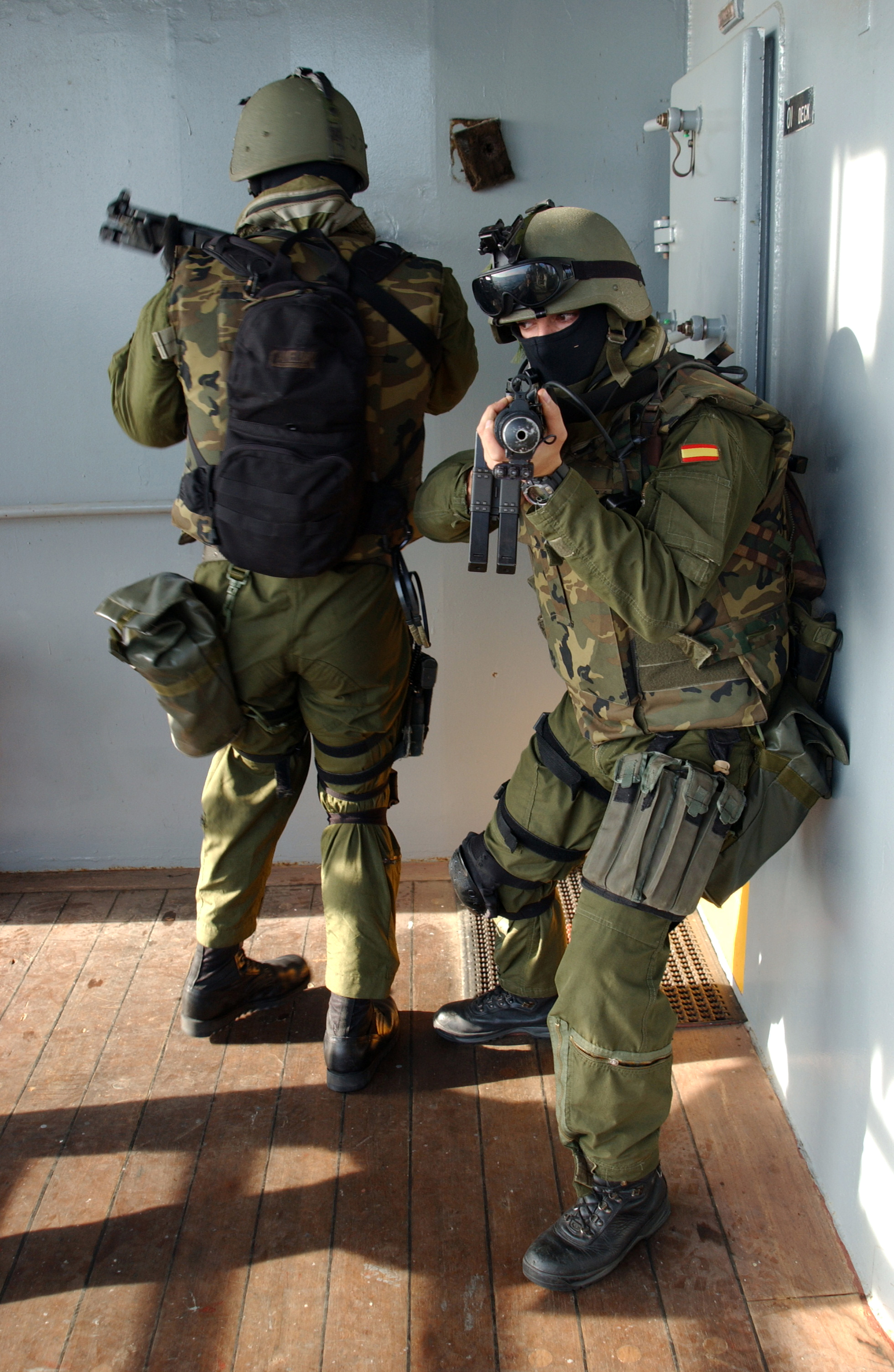 Spanish special operations forces soldiers conduct a visit, board, search and seizure (VBSS) operation aboard the Military Sealift Command (MSC) combat stores ship USNS Saturn (T-AFS 10) during Exercise Sea Saber 2004.